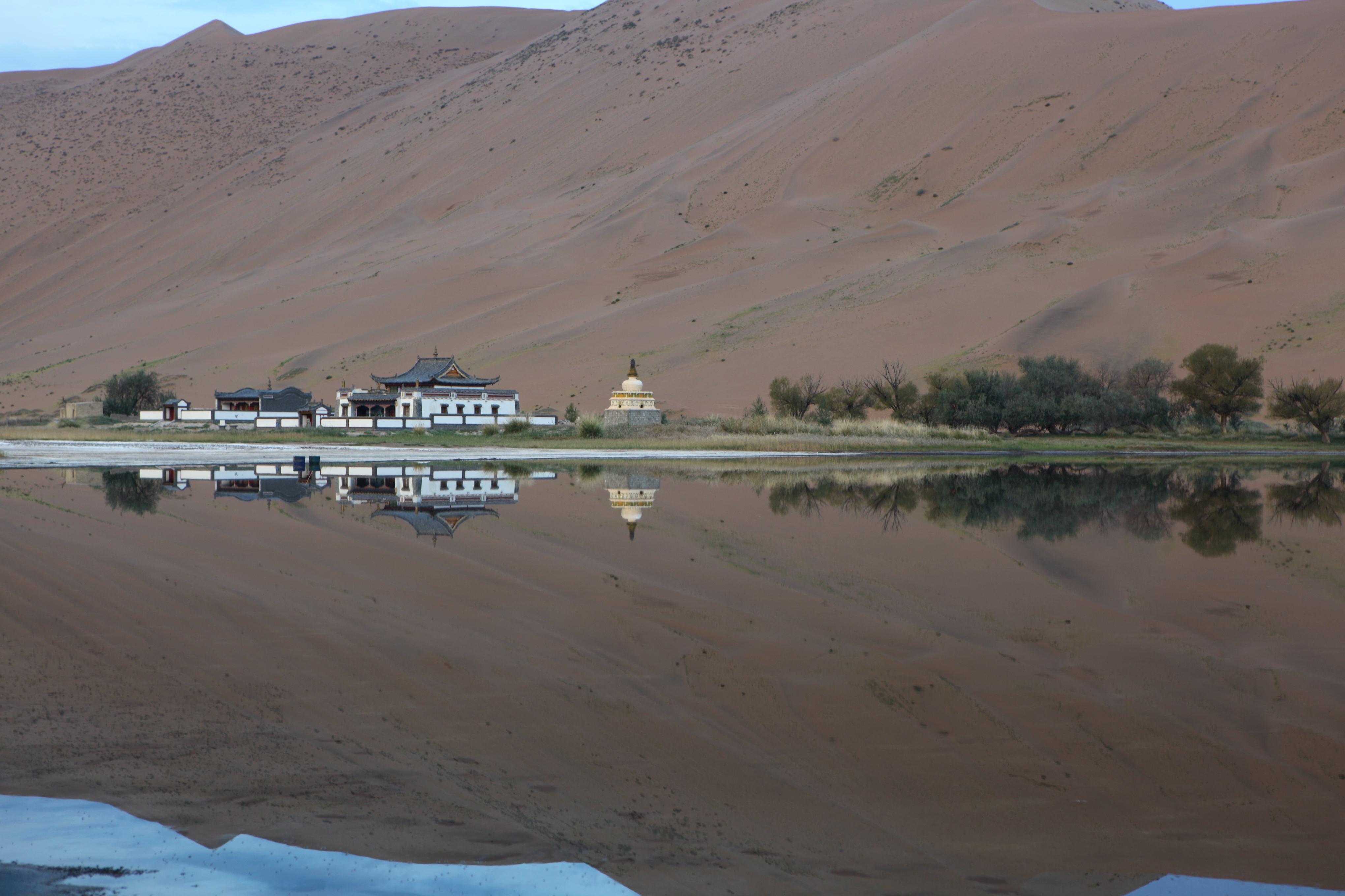 The Badain Jaran Temple with its reflection on the adjacent lake.